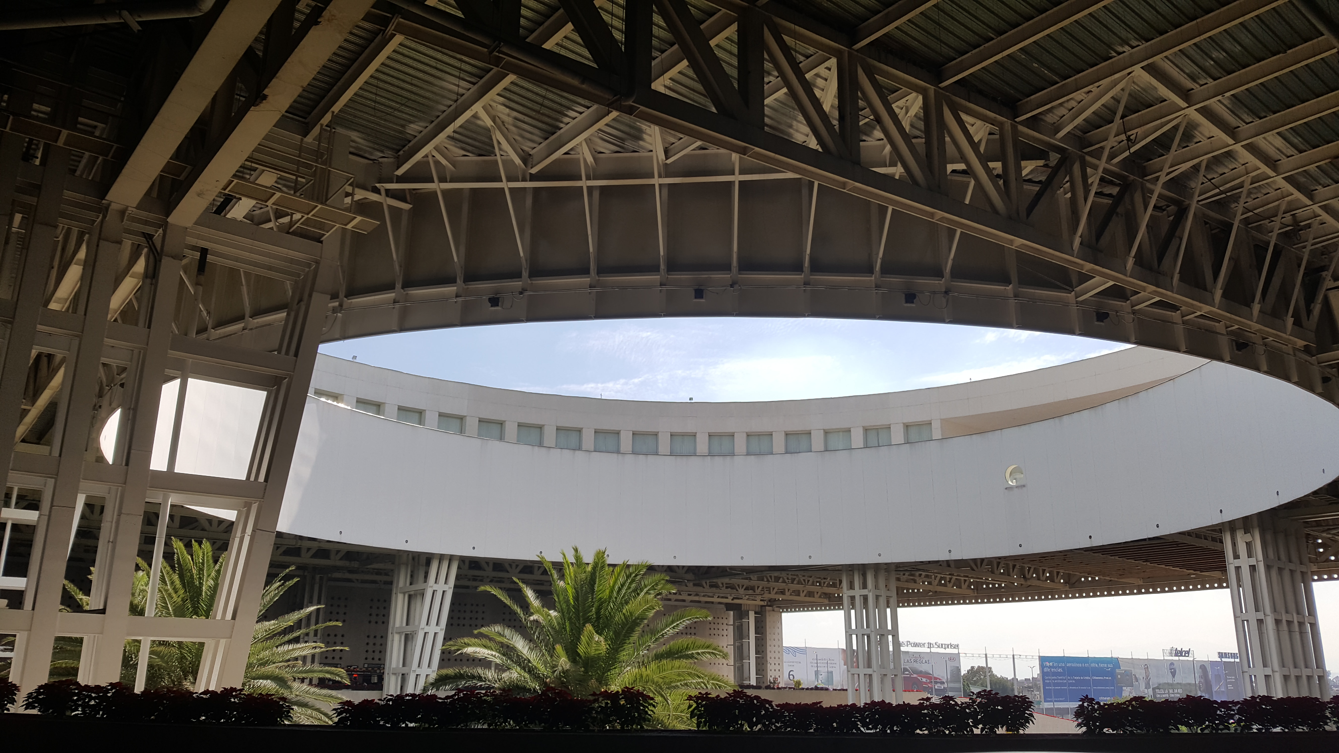 Mexico City (2018)